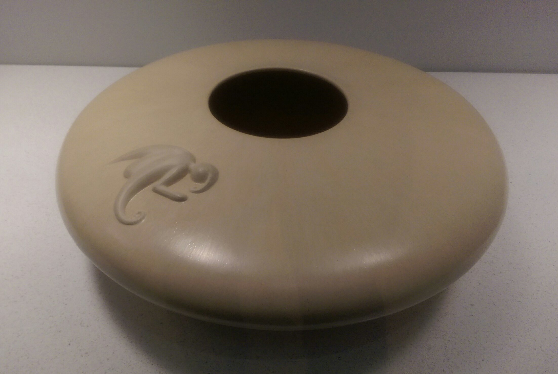 An earthenware pottery vessel by Hopi artist Al Qöyawayma, made in 1983, on display at the Crocker Art Museum in Sacramento, California. Photo by Jim Heaphy.